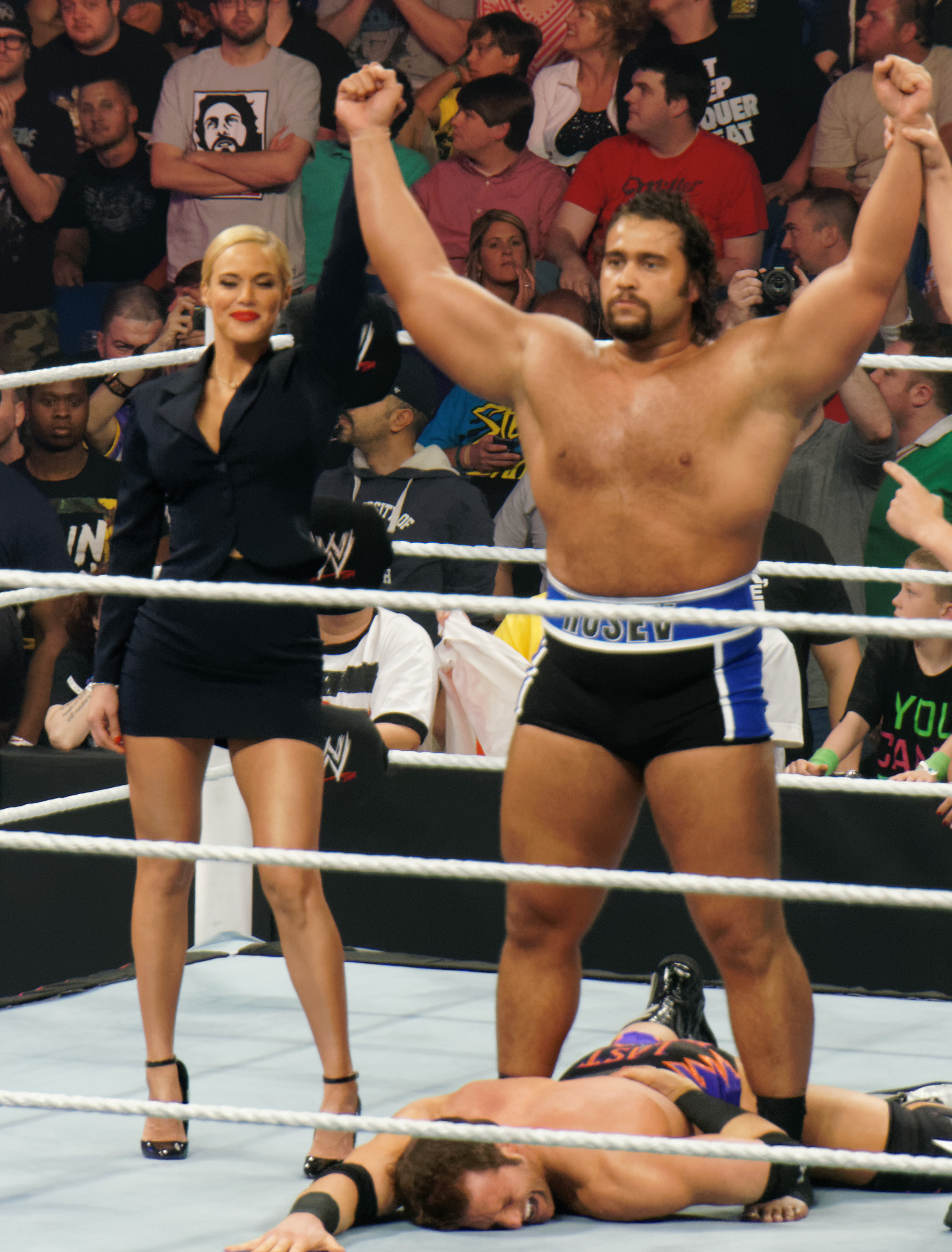 Lana and Alexander Rusev on Raw on April 7, 2014. Cropped from original.